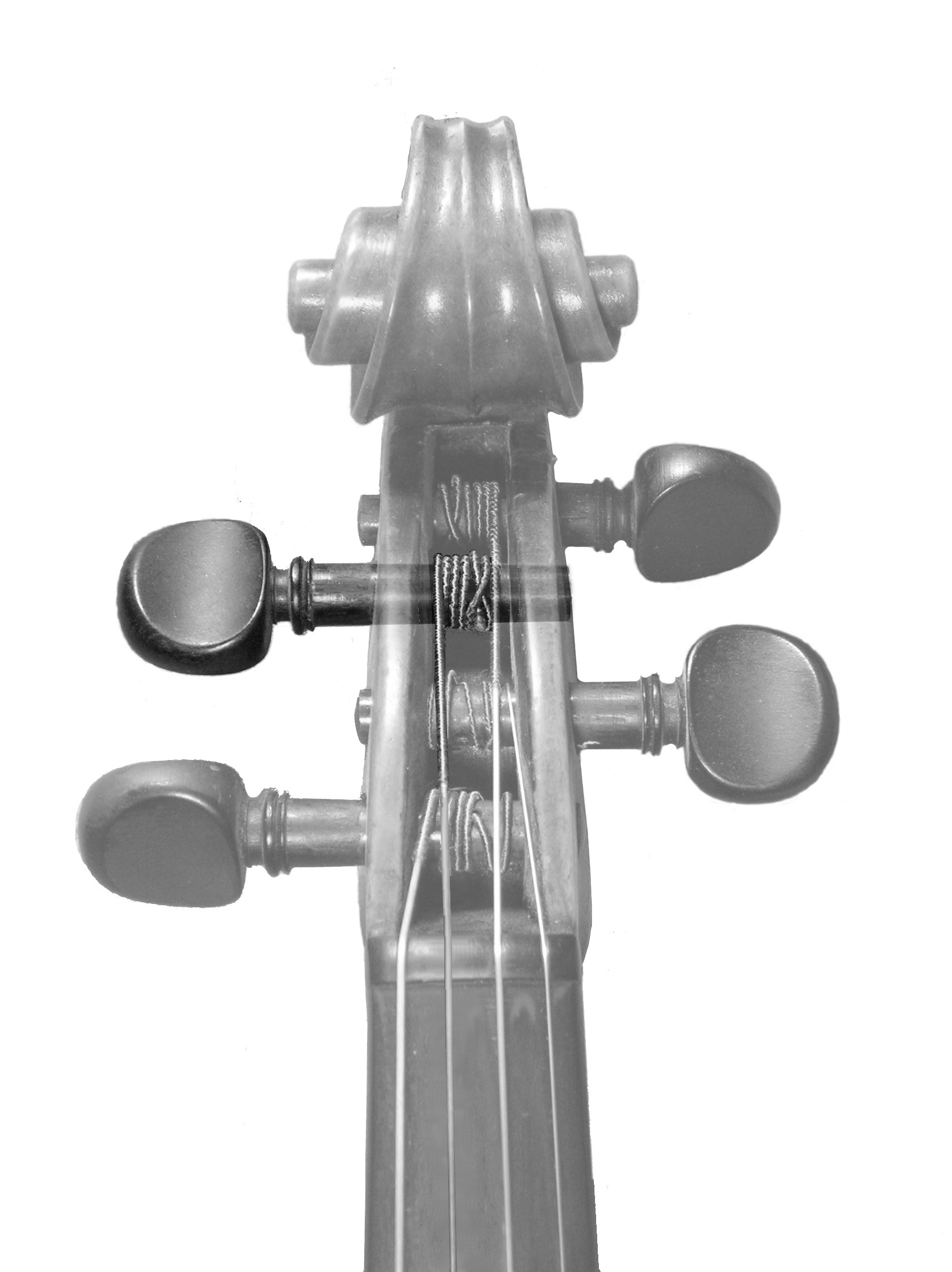 Violin pegbox, manipulated to show peg